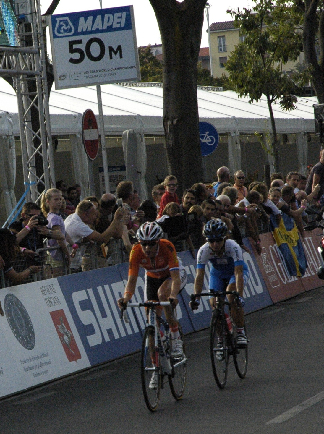 2013 UCI Road World Championships – Women's road race Lucinda Brand and an Italian rider in the women's road race